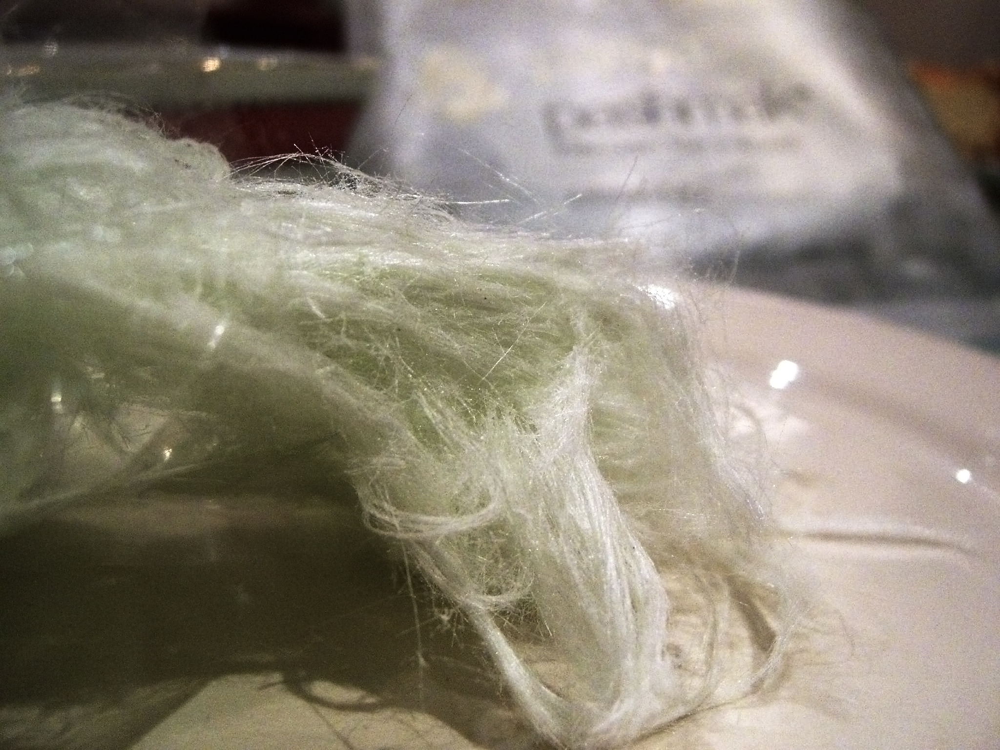 Pashmak candy - Persian Fairy Floss - flavoured with Pistachio oil.